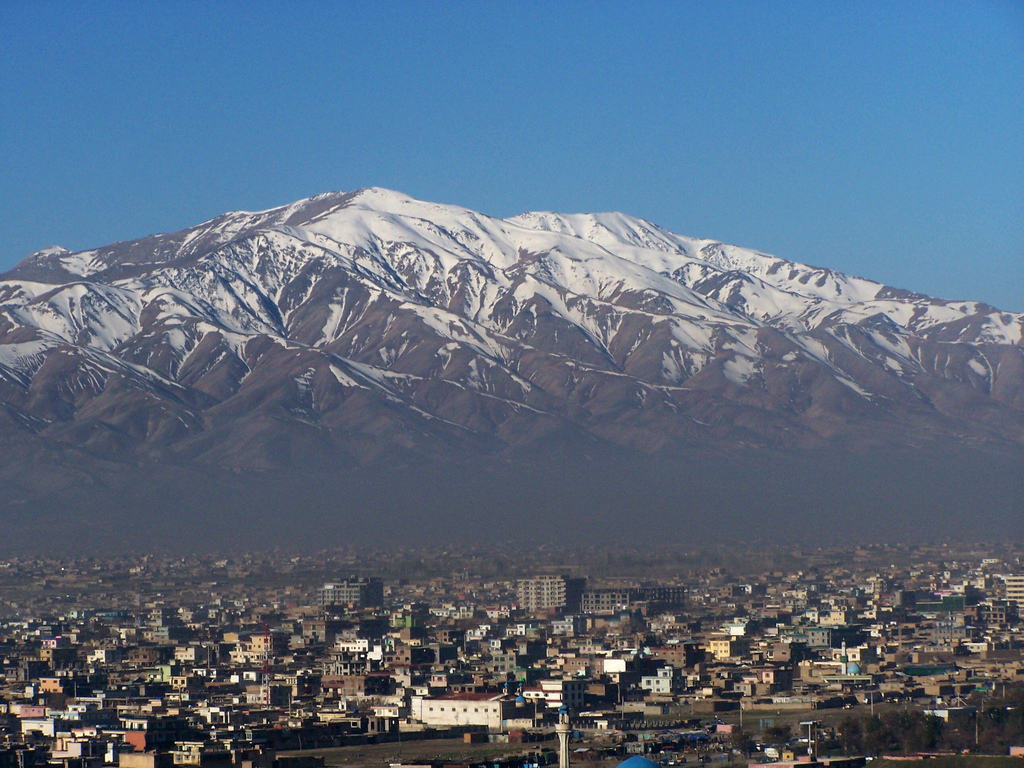 Snow Mountains of Kabul (Photo made by: Joe Burger)